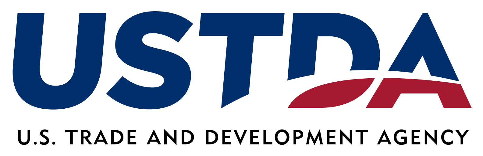 USTDA official logo